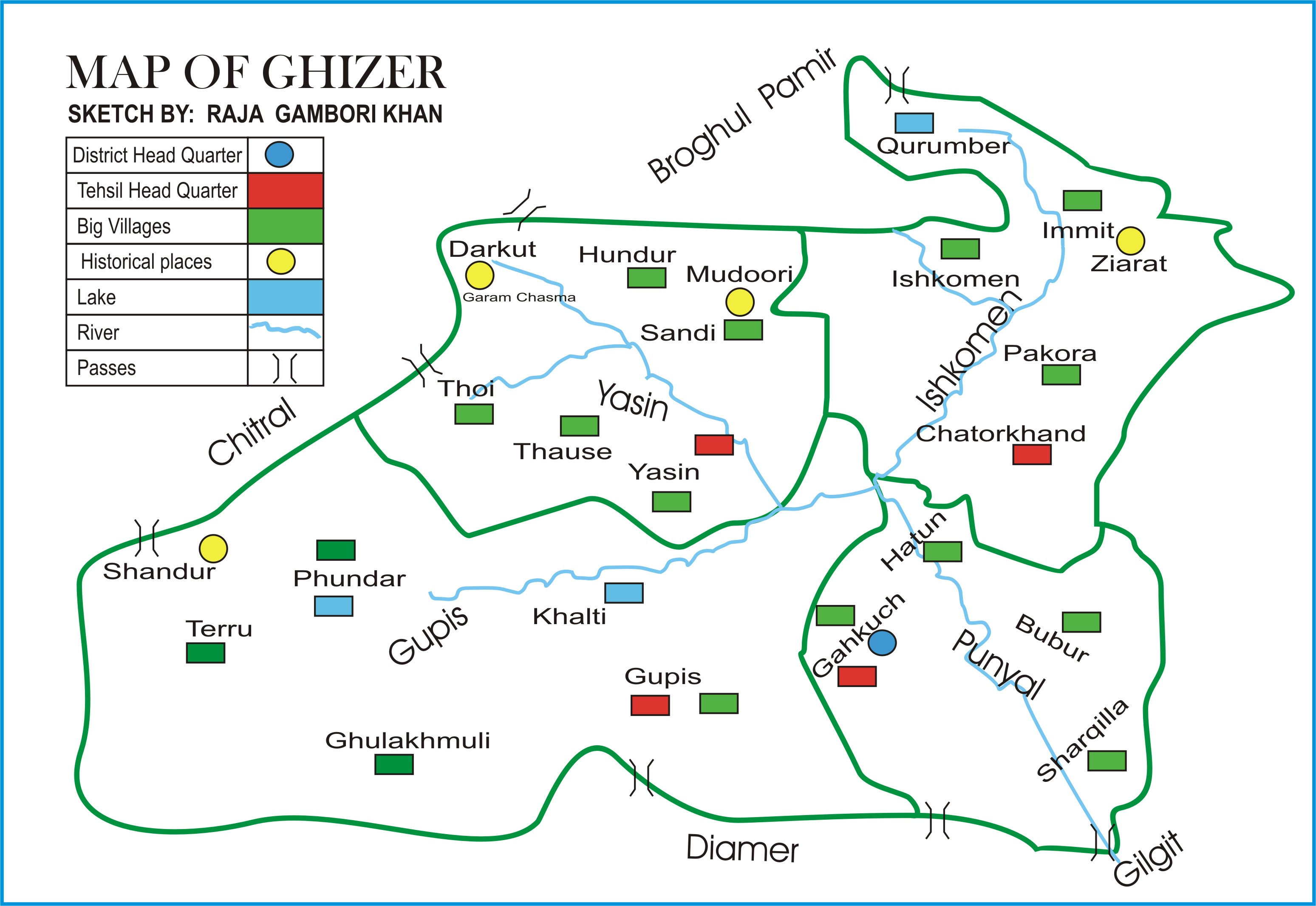 I have had a Web Site by the Name of but i lose this and had worked much for that like this map and much more . Now i am donating my Ghizer District Map to Wikipedia Thanks. Best Regards Raja Gambori Khan 03003502795